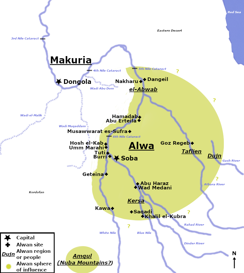 Initially based on map IX from the book "The Kingdom of Alwa" (see the first four versions of the map to see the faithful copy).[1] The original map had several problems, so I decided to modify it. 1) Zarroug had Alodia extend as far west as Darfur. However, there is still virtually no archaeological evidence supporting this assumption.[2] 2) The exact nothern border is still desputed; it is generally placed between Abu Hamad and the confluence of the Nile and the Atbara.[3] 3) Zarroug shows all regions west of the Nile as part of Alodia. However, the traveller Ibn Hawqal explicitly stated that parts of the region west of the White Nile were part of Makuria. The Nuba mountains were probably part of Alodia, hence I included stripes and a question mark for the area between the confluence of the two Niles and the Nuba mountains.[4] 4) There is little evidence that the Bayuda desert (between ed Debba and Omdurman) was part of either Makuria or Alodia.[5] ↑ Mohi el-Din Abdalla Zarroug (1991): "The Kingdom of Alwa". Calgary. ↑ David Edwards (2004): "The Nubian Past. An Archaeology of the Sudan". Routledge. p. 254 ↑ Derek Welsby (2014): "The Kingdom of Alwa" in "The Fourth Cataract and Beyond". Peeters. ↑ Jay Spaulding (1998): "Early Kordofan" in "Kordofan Invaded: Peripheral Incorporation in Islamic Africa". Brill. p. 49 ↑ Tim Karberg, Angelika Lohwasser (2018): "The Wadi Abu Dom Itinerary (W.A.D.I.) Survey Project" in "Bayuda Studies. Proceedings of the First International Conference on the Archaeology of the Bayuda Desert in Sudan". Harrassowitz.